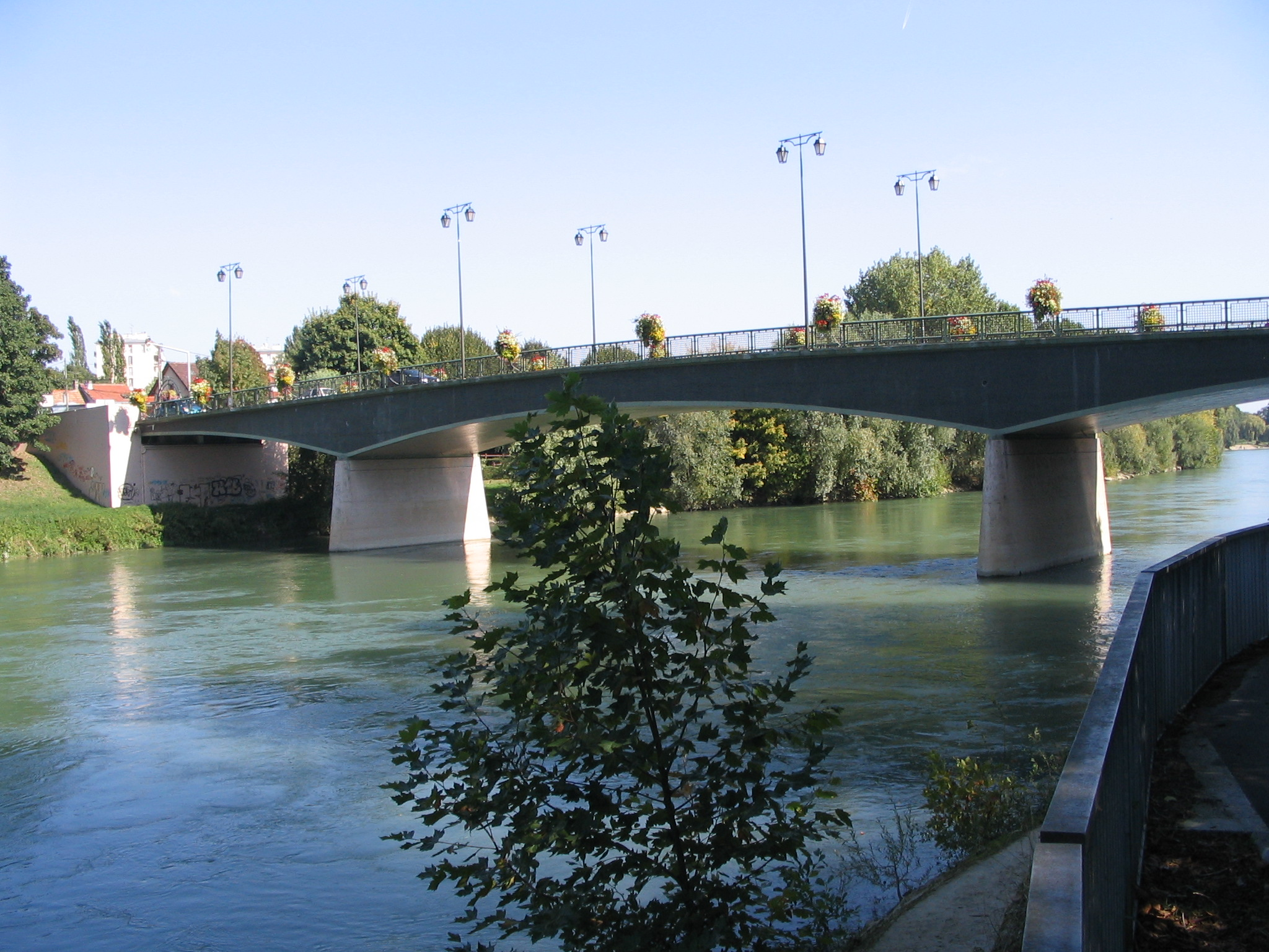 The bridge over River Marne in Gournay-sur-Marne, Seine-Saint-Denis, France.